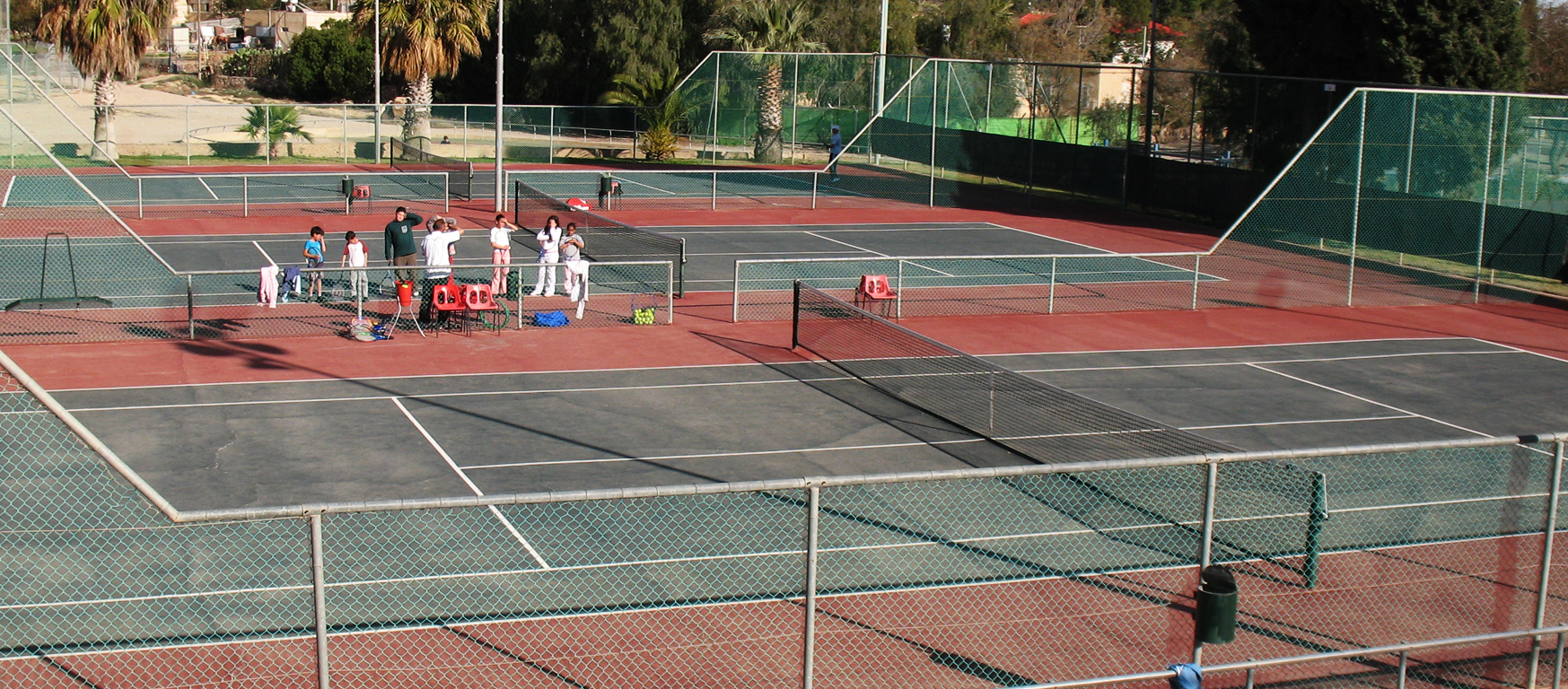 Tennis courts in Arad, Israel